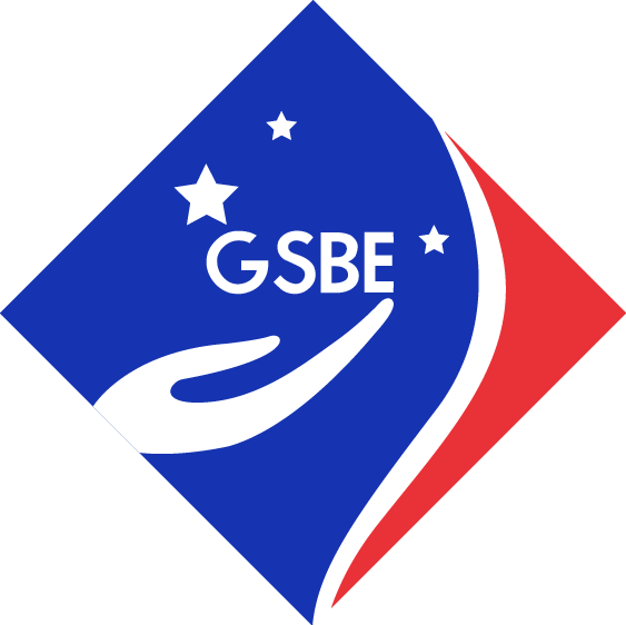 logo of school